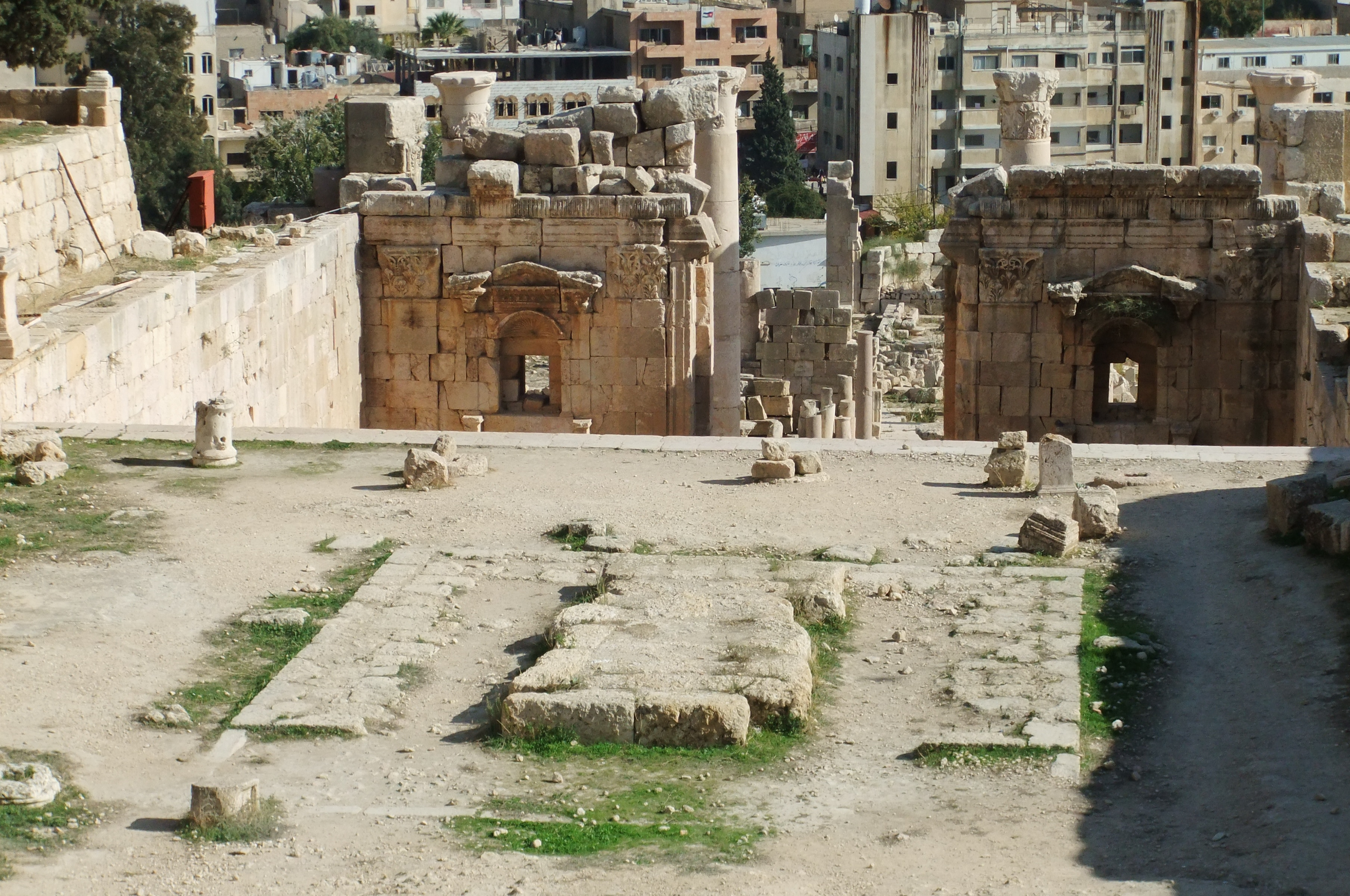 Jerash, the Gerasa of Antiquity (Ancient Greek: Γέρασα, Hebrew: גַ'רַש), is the capital and largest city of Jerash Governorate (محافظة جرش), which is situated in the north of Jordan, 48 kilometres (30 mi) north of the capital Amman towards Syria. Jerash Governorate's geographical features vary from cold mountains to fertile valleys from 250 to 300 metres (820 to 980 ft) above sea level, suitable for growing a wide variety of crops.